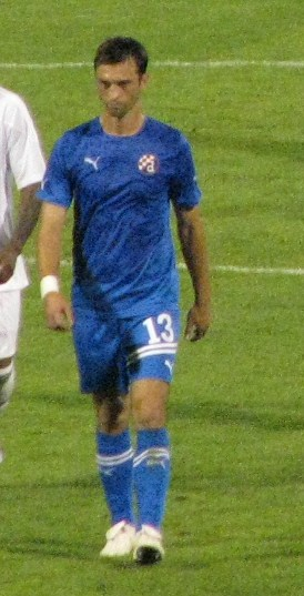 Tonel